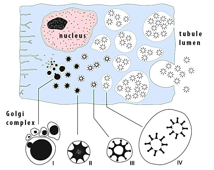 Development of brochosomes (stages I to IV) in a secretory cell of the Malpighian tubules of Cicadellidae.